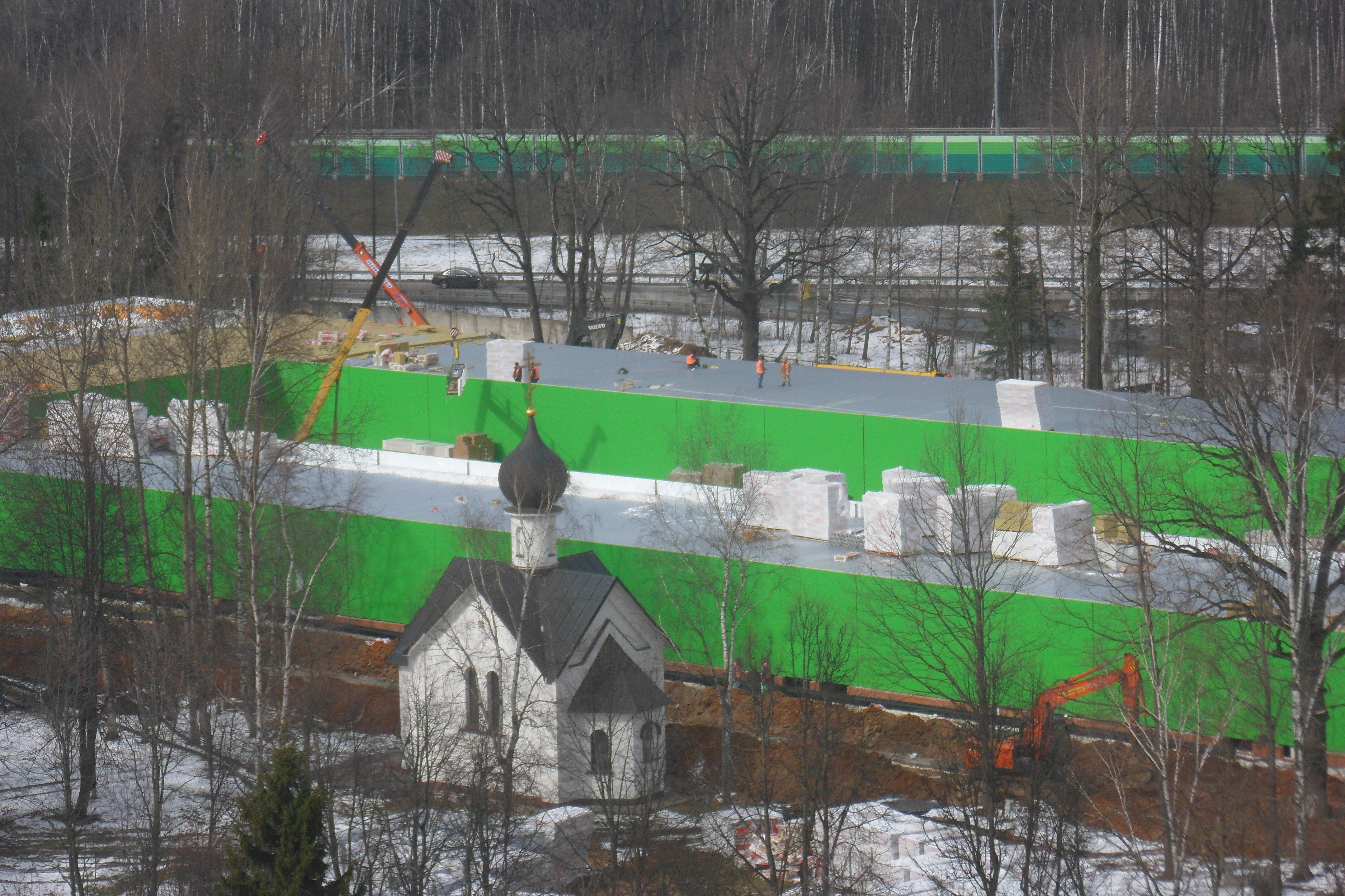 Строительство инфекционного отделения в Филиале №3 3 ЦВКГ им. Вишневского в г. Одинцово 1 апреля 2020 года. Министерство обороны осуществляет строительство инфекционных отделений в разных частях России.